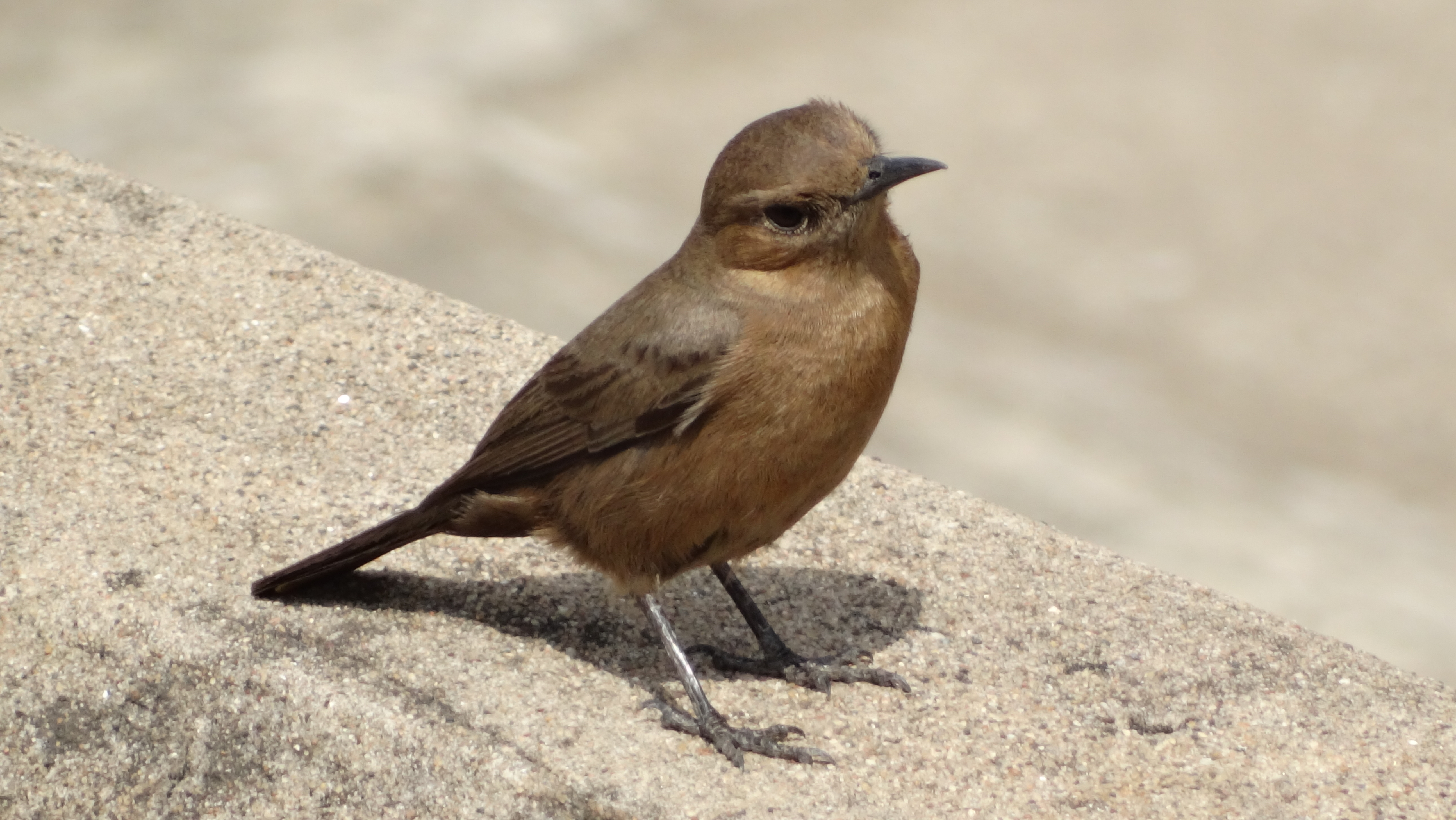 Brown Rock Chat Madhya Pradesh